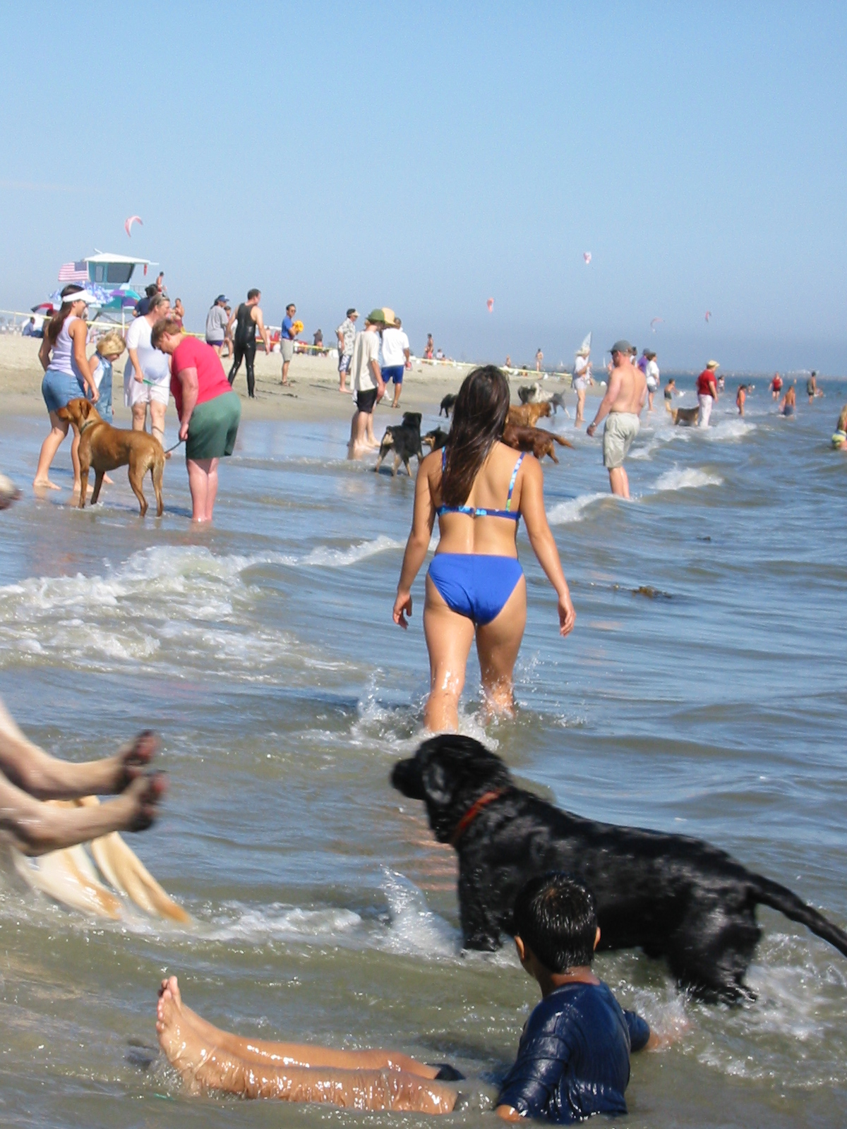 "Rosie's Dog Beach" is the 3-acre, off-leash dog beach in the Belmont Shore area of Long Beach, California. The only dog beach in all of LA County